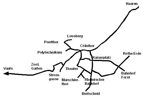 Horsetram network, Aachen (1881-1895)